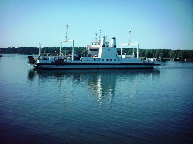 Ferry Krasibór III near Świnoujście, Poland